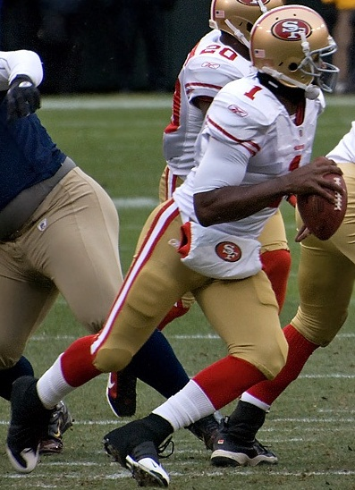 Troy Smith